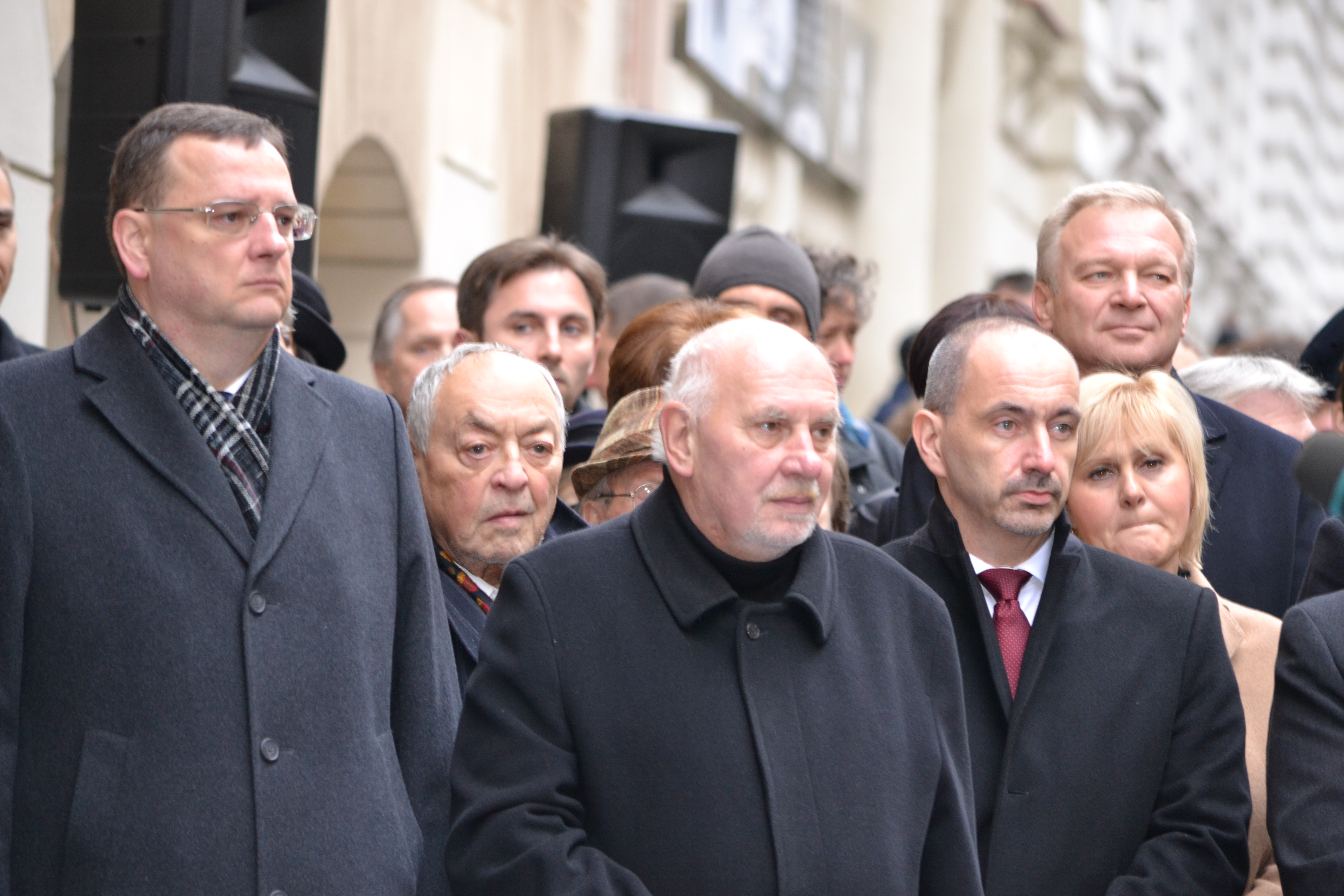 Czech politicians (from left: Petr Nečas, Egon Lánský, Pavel Rychetský, Martin Kuba)